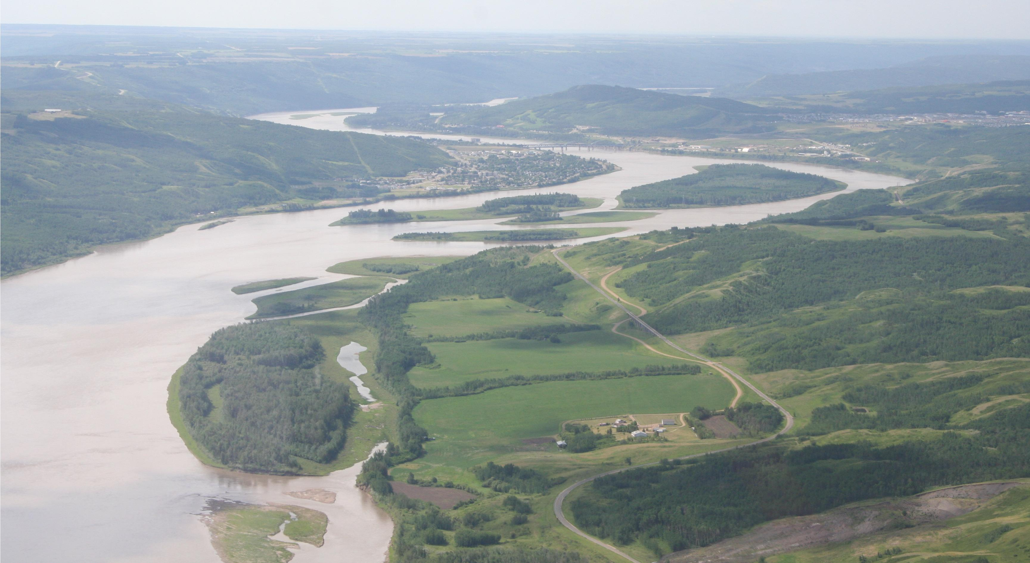 Aerial view of the Town of Peace River from the northside